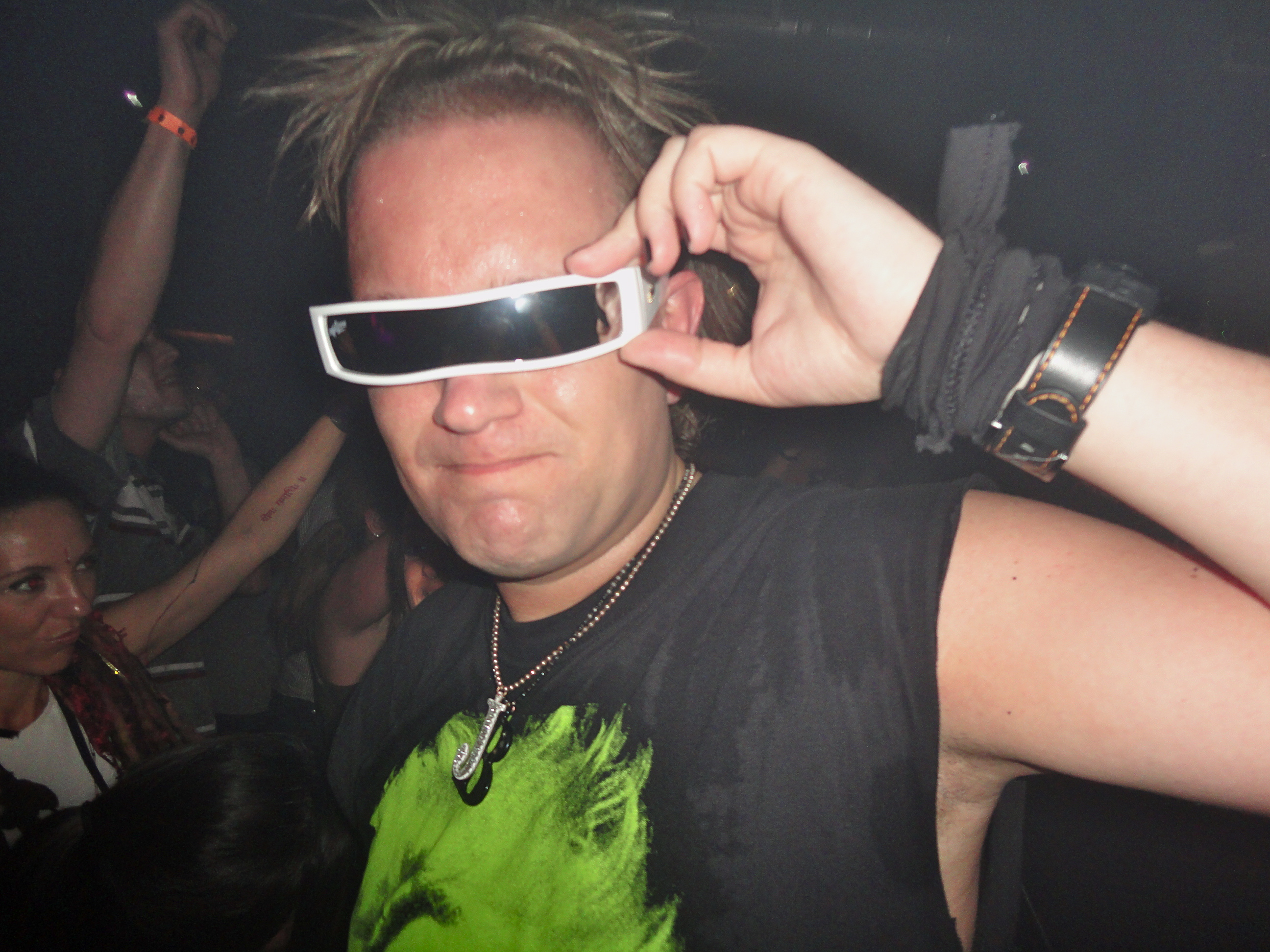 John B greets fans in the crowd at a rave in Miami, Florida, at EVE Nightclub. The rave was thrown by Hospitality Records and Embrace Miami.